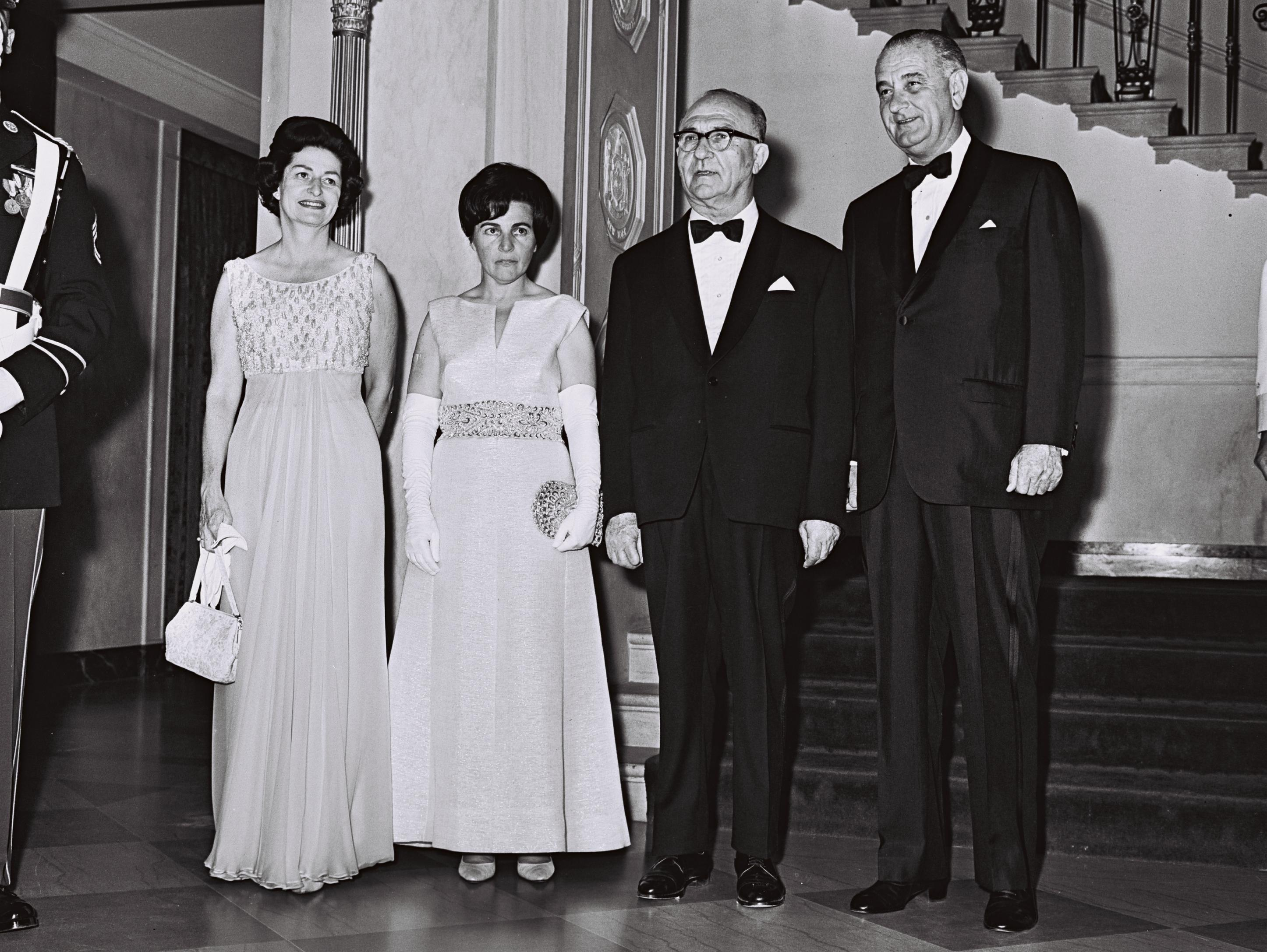 P.M. LEVY ESHKOL AND HIS WIFE MIRIAM WITH PRES. AND MRS. LYNDON JOHNSON, PRIOR TO THE STATE DINNER AT THE WHITE HOUSE IN WASHINGTON.